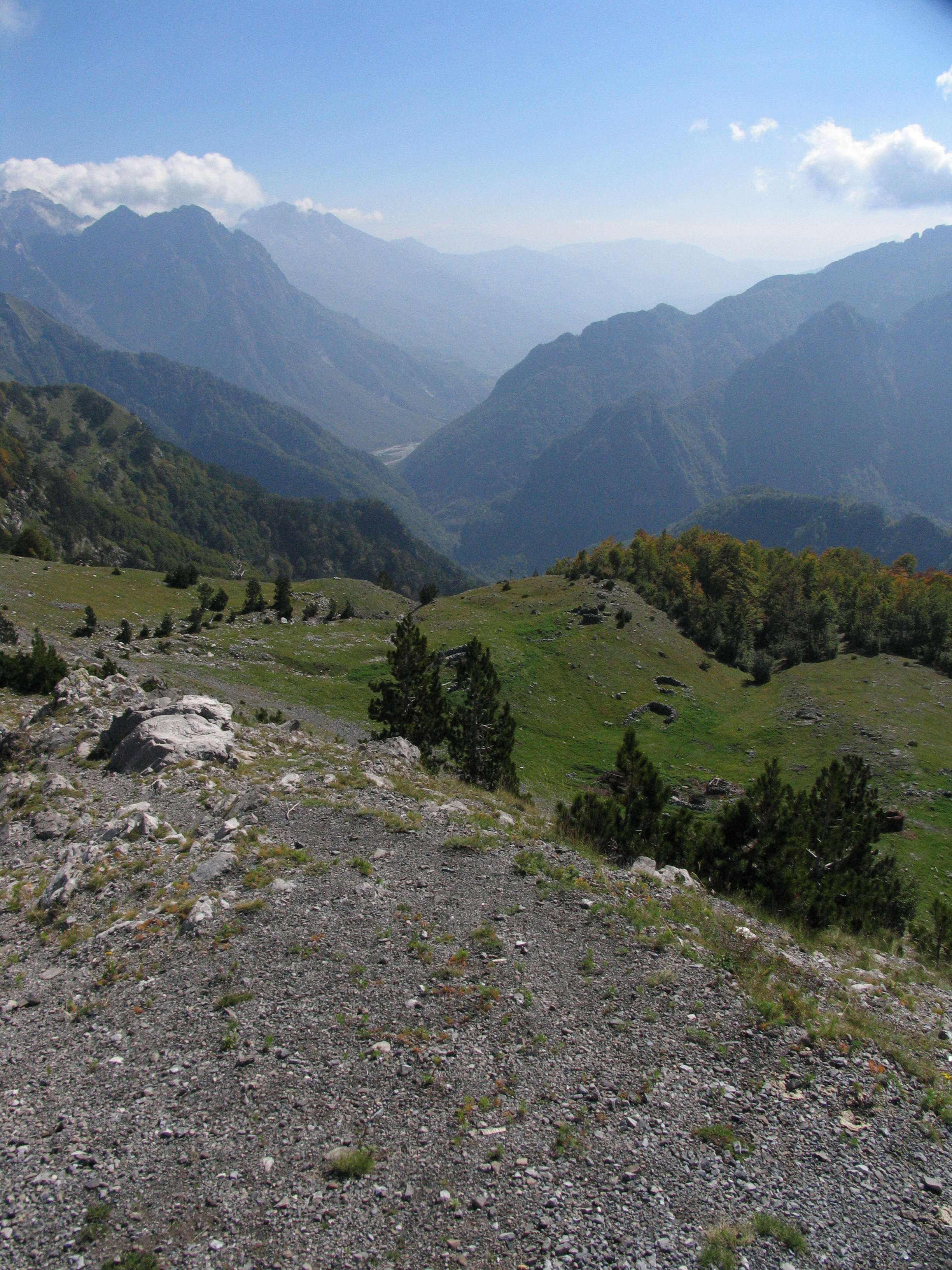 Thethi Valley, a view from the pass on the Shkodra road, northern Albania.